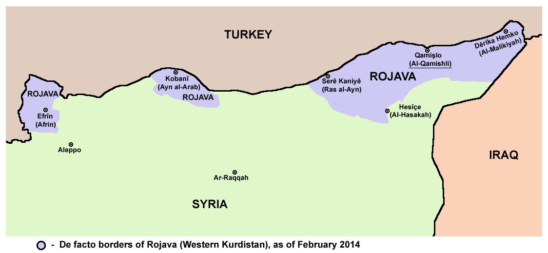 Map showing de facto borders of Rojava (Western Kurdistan) in February 2014.